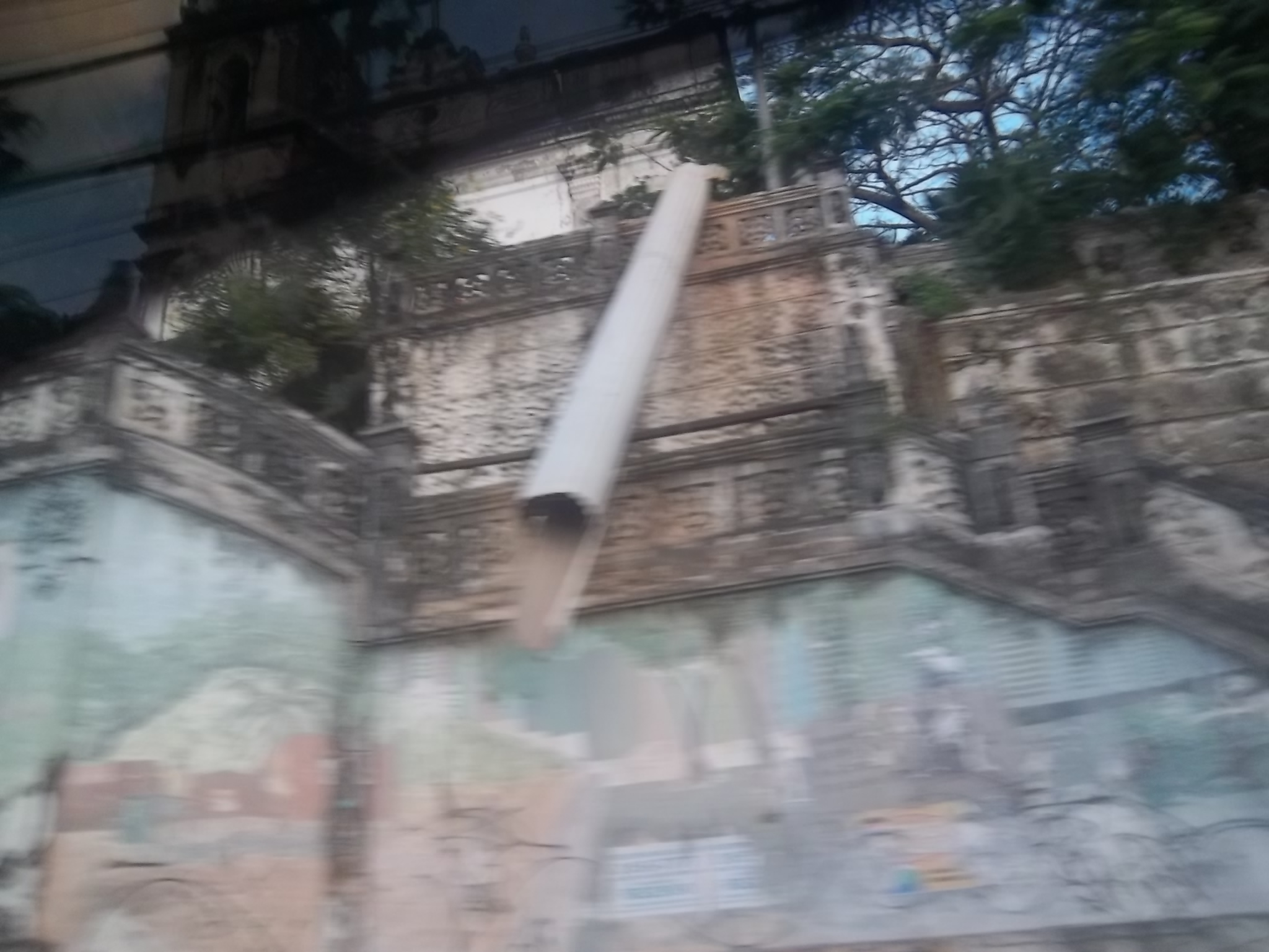 Igreja da Ordem Terceira da Santíssima Trindade, Salvador, Bahia.